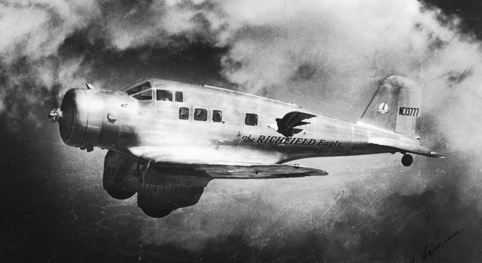 Richfield Oil Company - The Richfield Eagle - Northrop Delta 1D NC13777